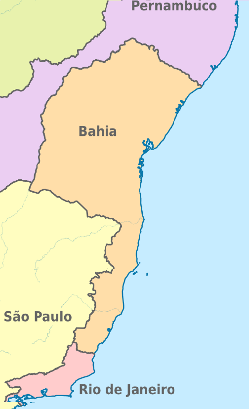 Bahia, capitancy, 1709